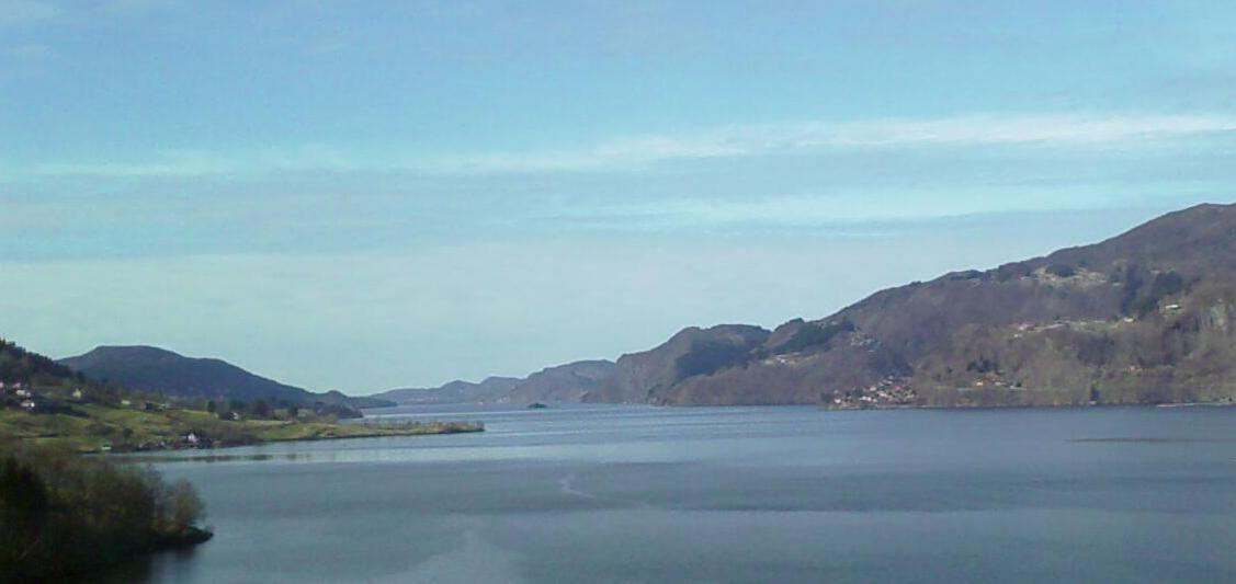 Sørfjorden seen from Takvam in Bergen, Norway.